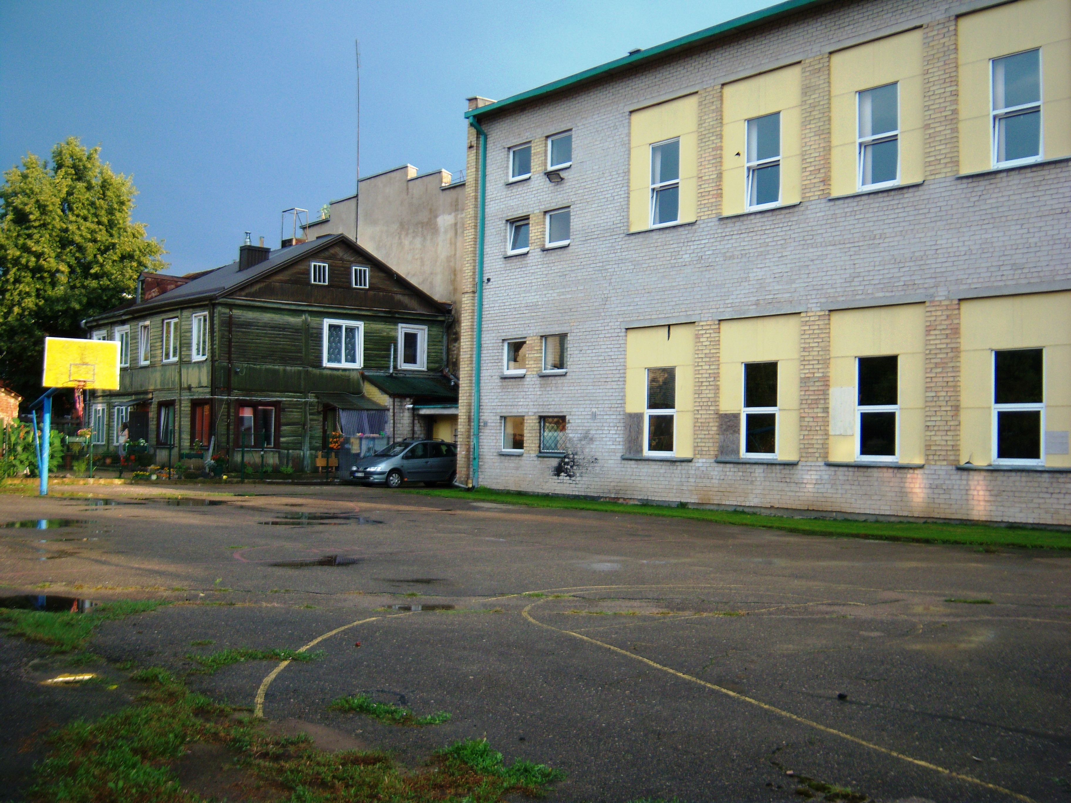 Vilijampolė Basic School, Kaunas, Lithuania